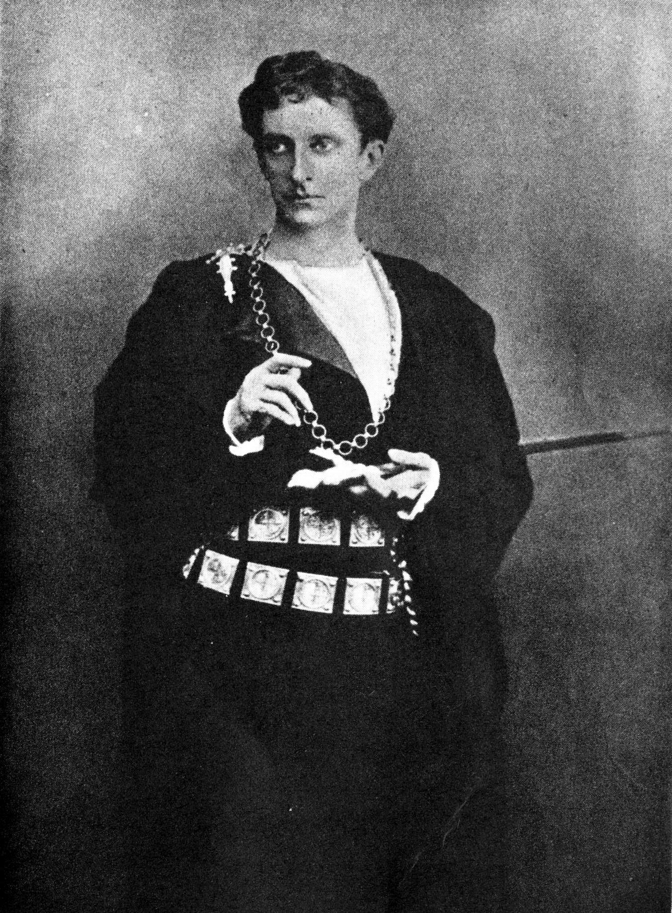 Sir Johnstron Forbes-Robertson (1853-1937) as William Shakespeare's Hamlet in 1897